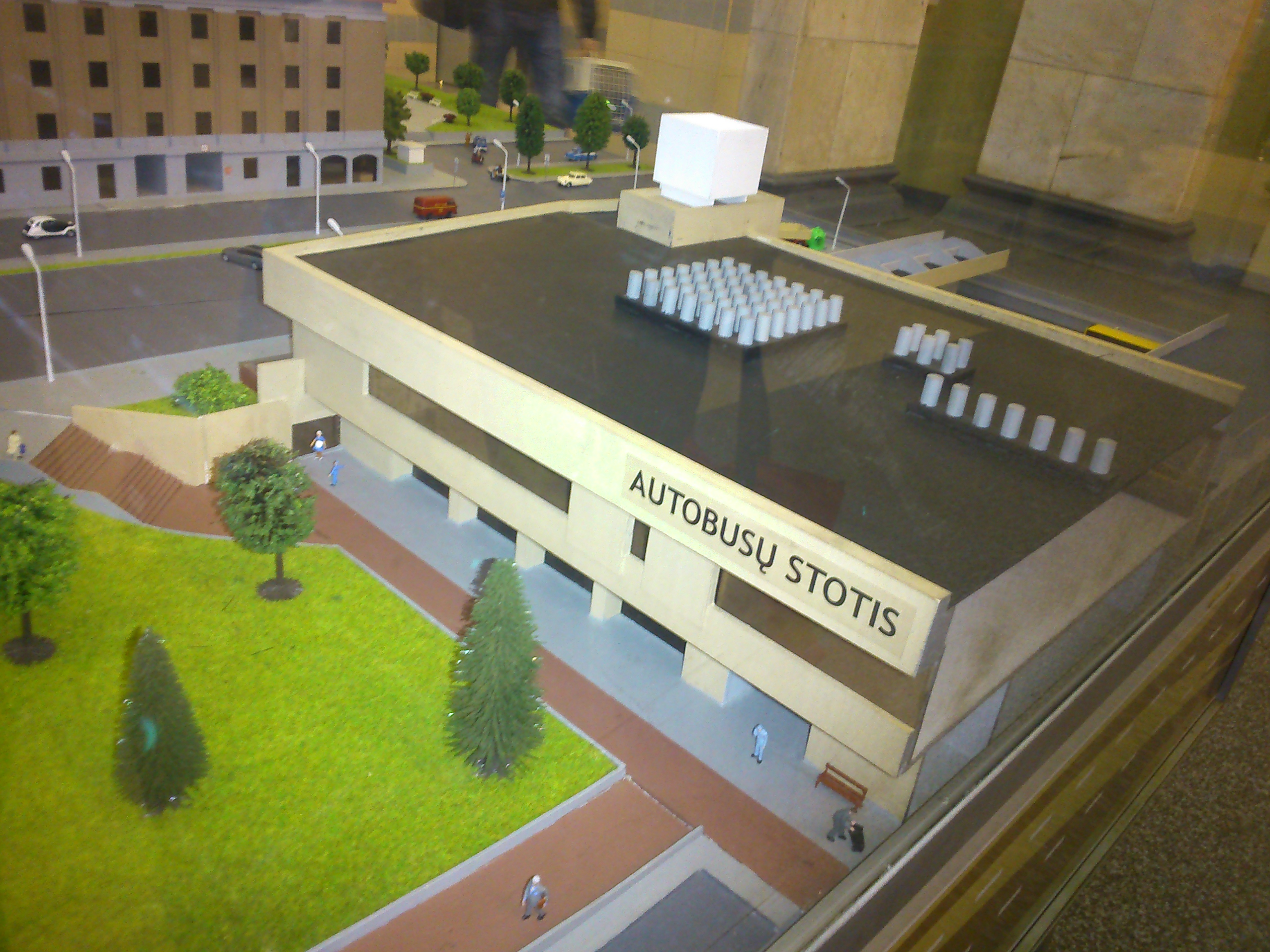 Bus station in VNO, LT Model